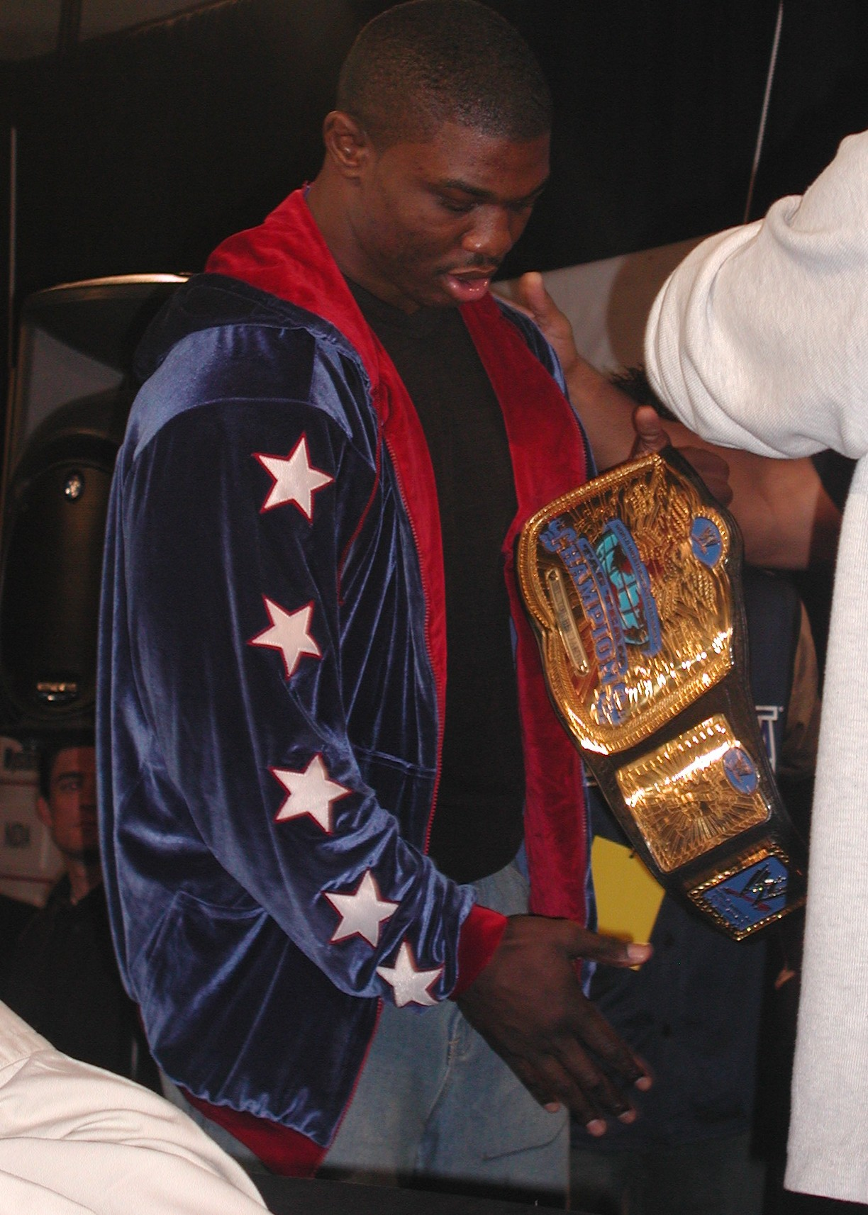 Shelton Benjamin at WWE Fan Axxess. Seattle, WA, Marchen:2003.